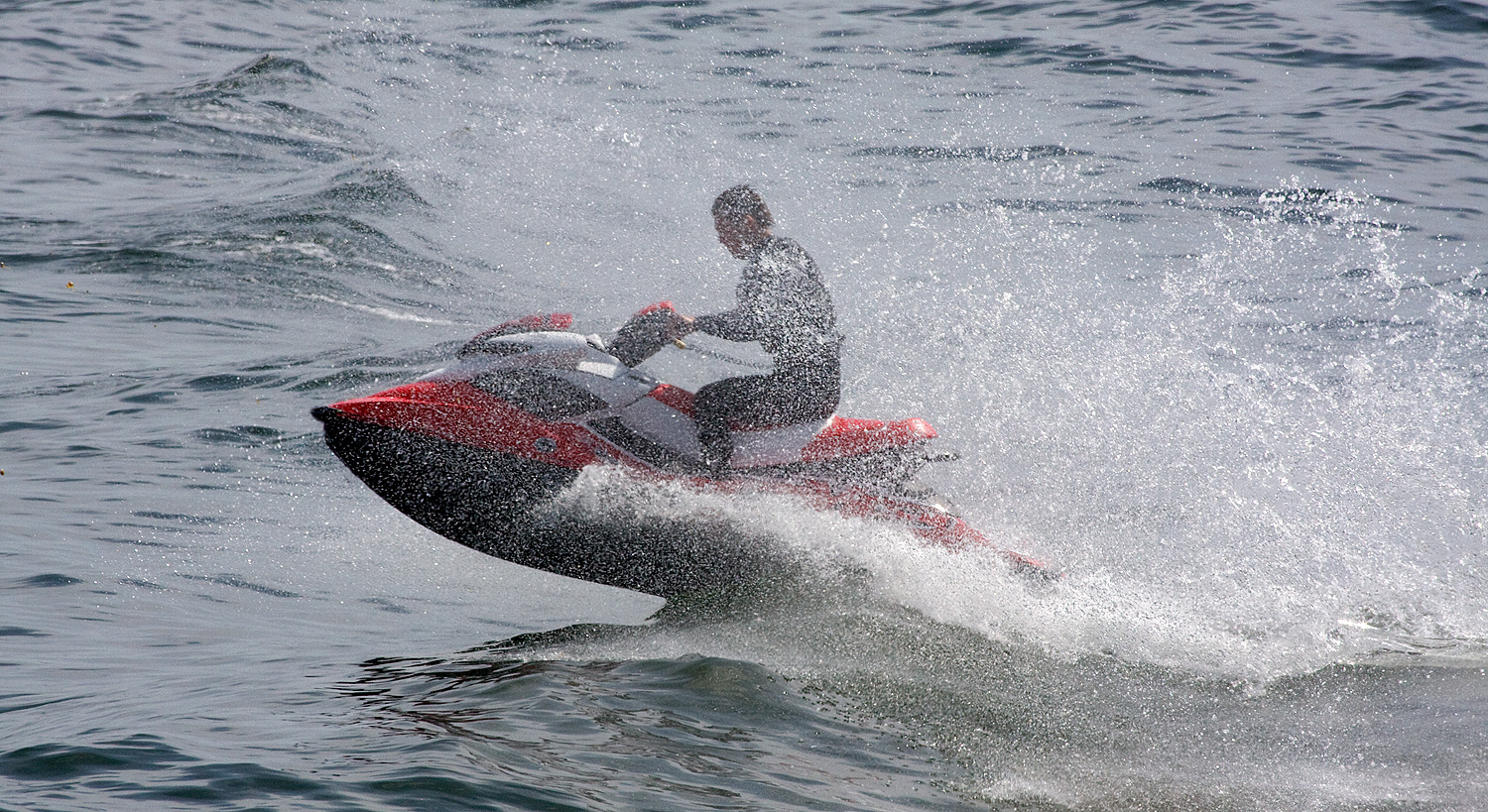 Sea-Doo RXP in action